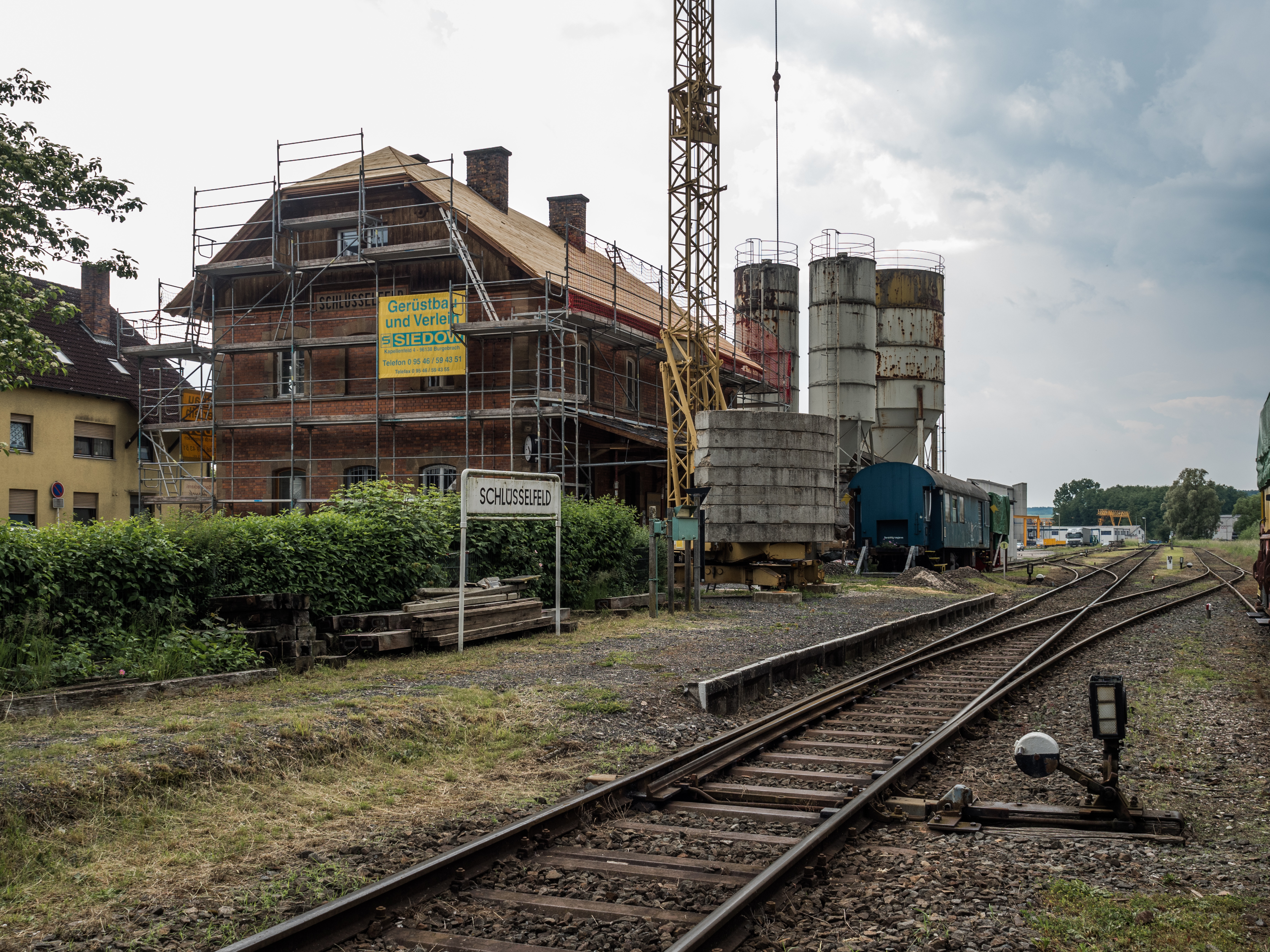 Former railway station in Schlüsselfeld